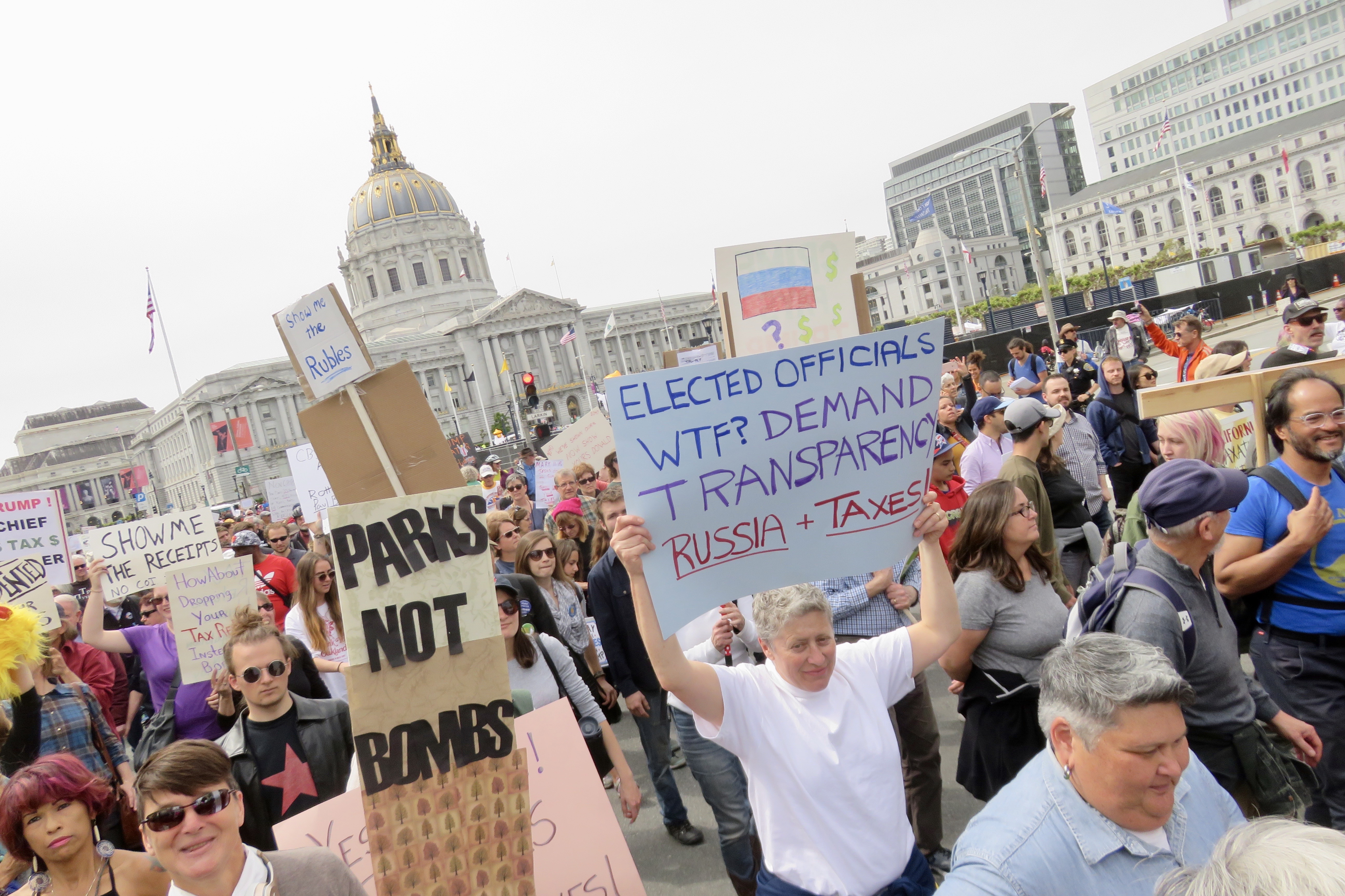 We joined the Tax March in San Francisco on April 15, to ask that Mr. Trump stop being a chicken and release his tax returns. Americans have the right to know what he's been hiding from us. The rally featured speeches by Rep. Nancy Pelosi and others in front of City Hall. We then marched down Market Street with Phyllis, Priscilla, Jean, Natalie and our friends from Mill Valley Community Action Network (MVCAN). It felt great to stand up for our rights, social justice and transparency -- and join forces to support a politics of hope, not fear. There were so many creative signs from a wide range of participants, from families with children to young adults and seniors. We were energized to be part of this active and diverse community and voice our concerns together about a man that seems unfit to serve as U.S. President. See more photos in our Tax March album: See more photos in our Women’s March album: Learn more about the Tax March